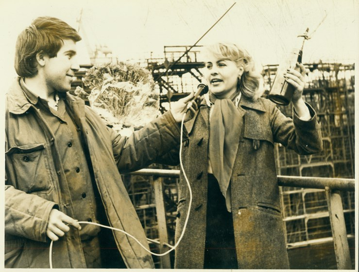 Inauguration of a ship constructed by the "Georgi Dimitrov" shipyard in Varna.